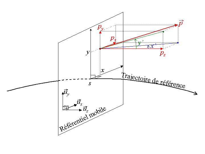 Moving frame on reference trajectory in a particle accelerator